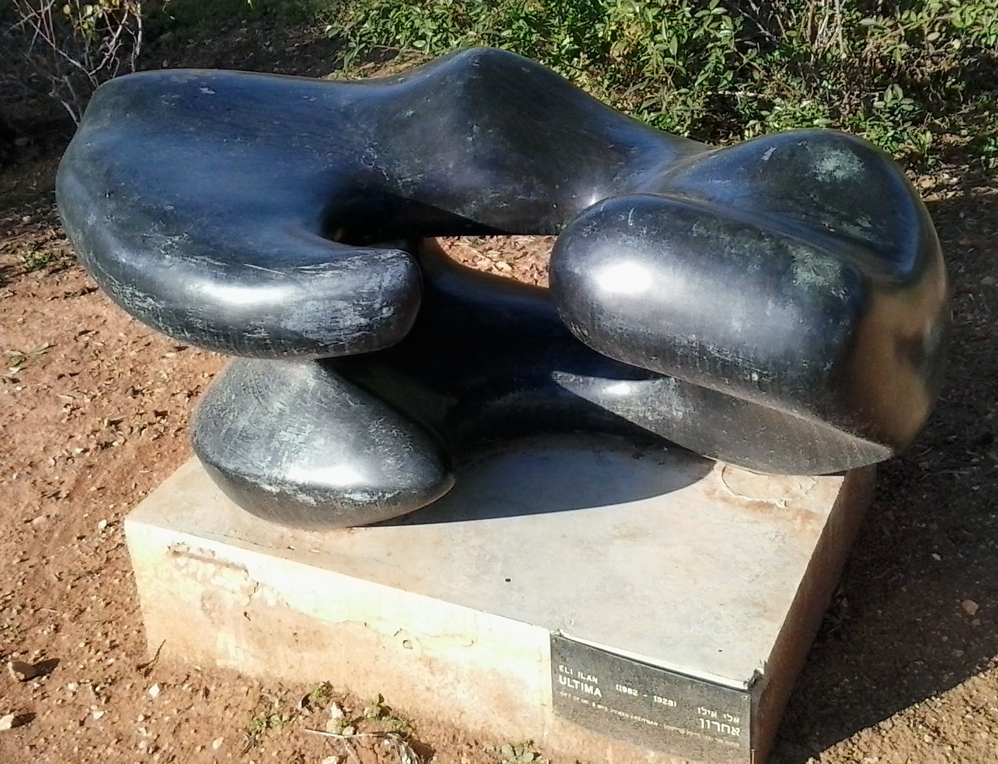 Eli Ilan's sculpture, Ultima, at Yad Vashem